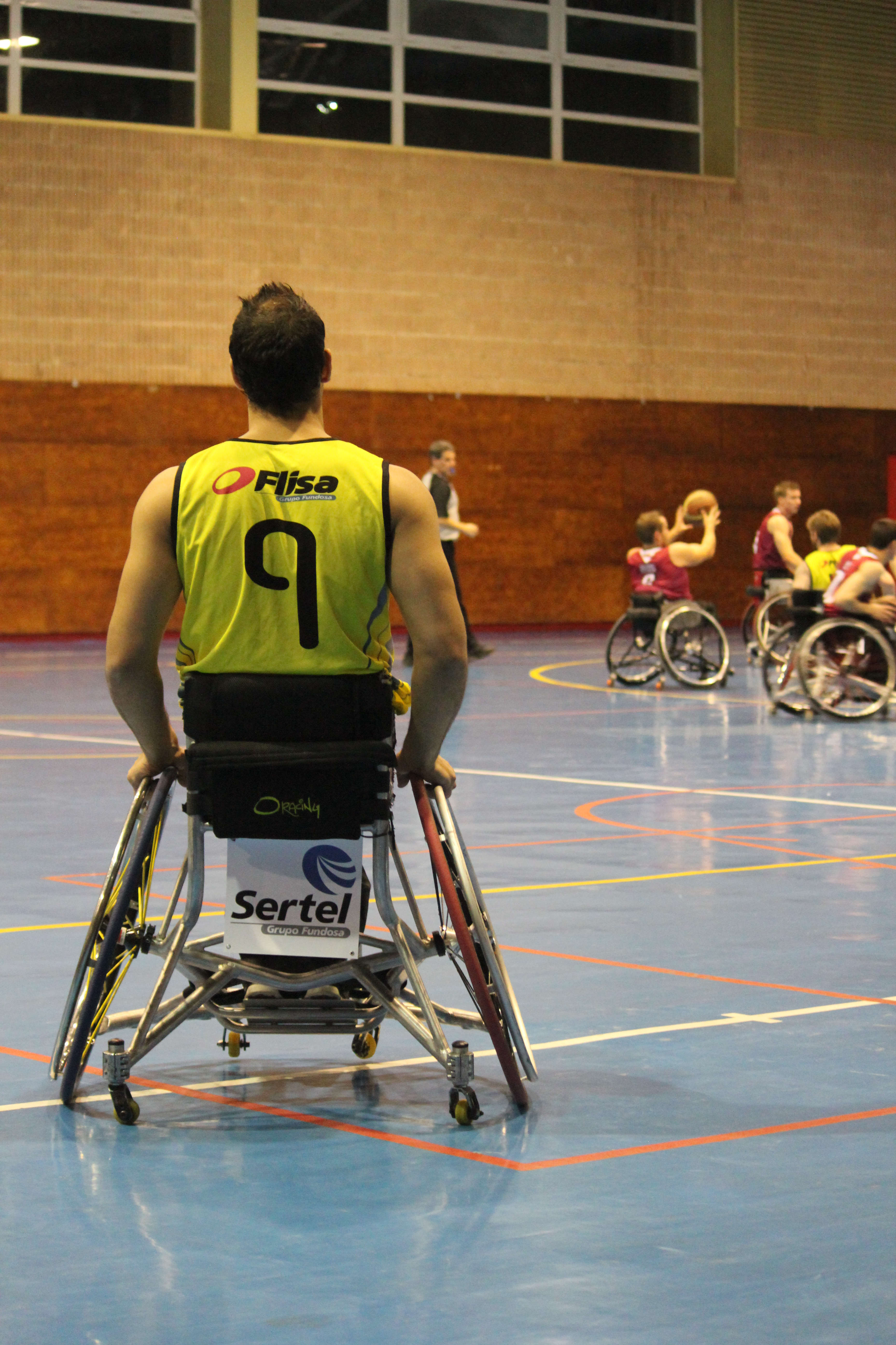 ONCE v Getafe, Madrid, November 9, 2013